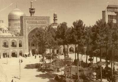 Imam Reza's Sanctuary old pics